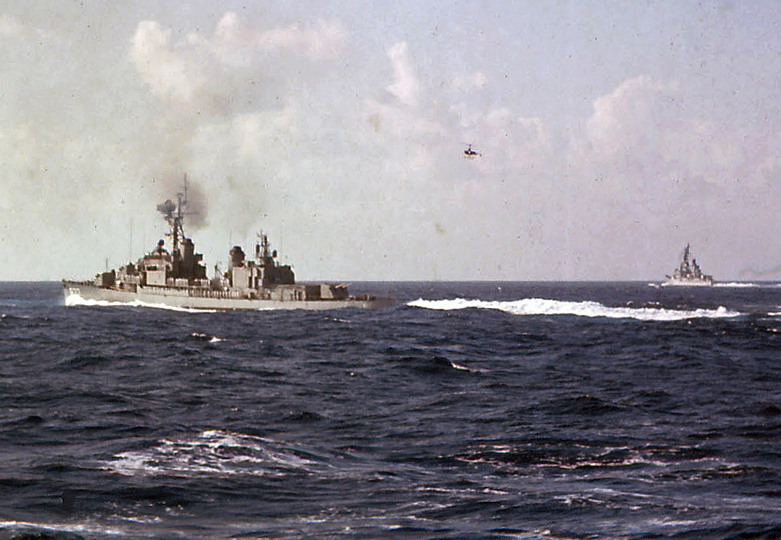 The U.S. Navy Gearing-class destroyer USS Hawkins (DD-873) in the Western Pacific, circa 1965. Note the QH-50 DASH drone in flight.